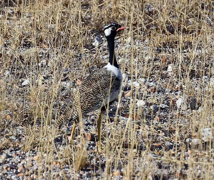 Black Bustard in Etosha N.P. (Namibia) photo self taken by Susann Eurich (Kilara), November 2005